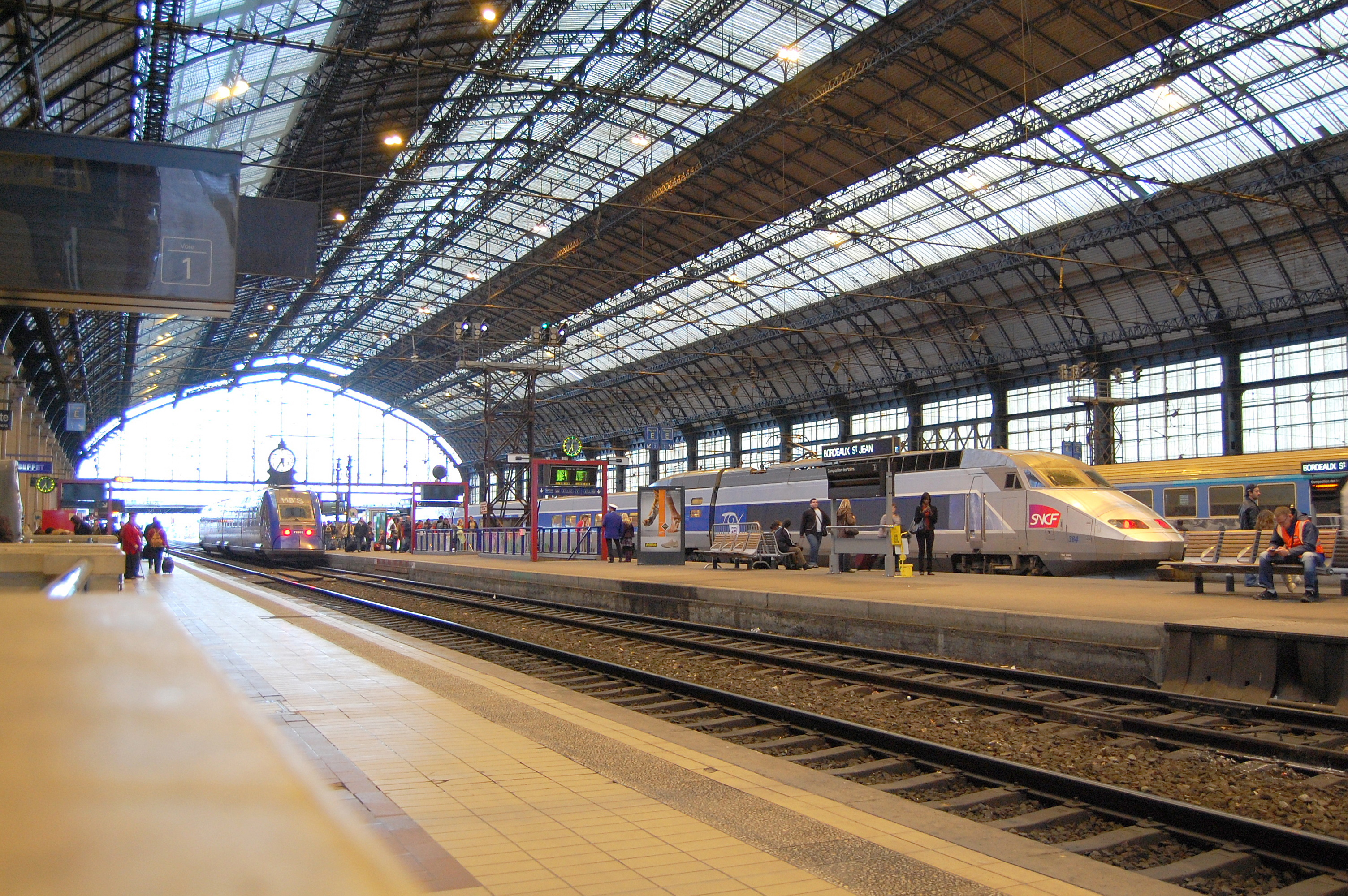 Bordeaux train station, France